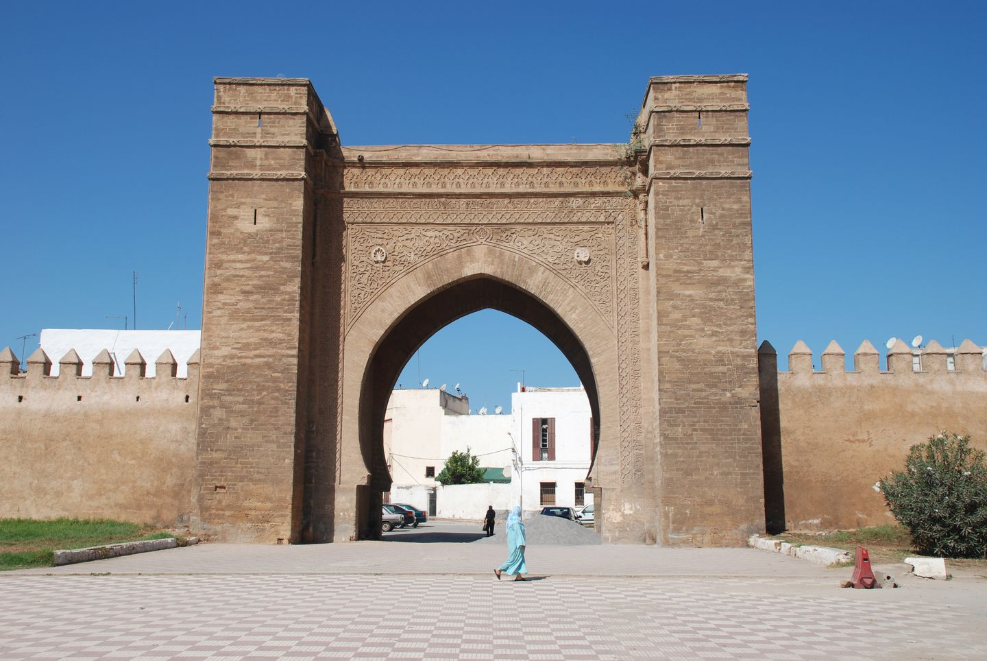 Salé, Morocco, Bab el-Mrisa